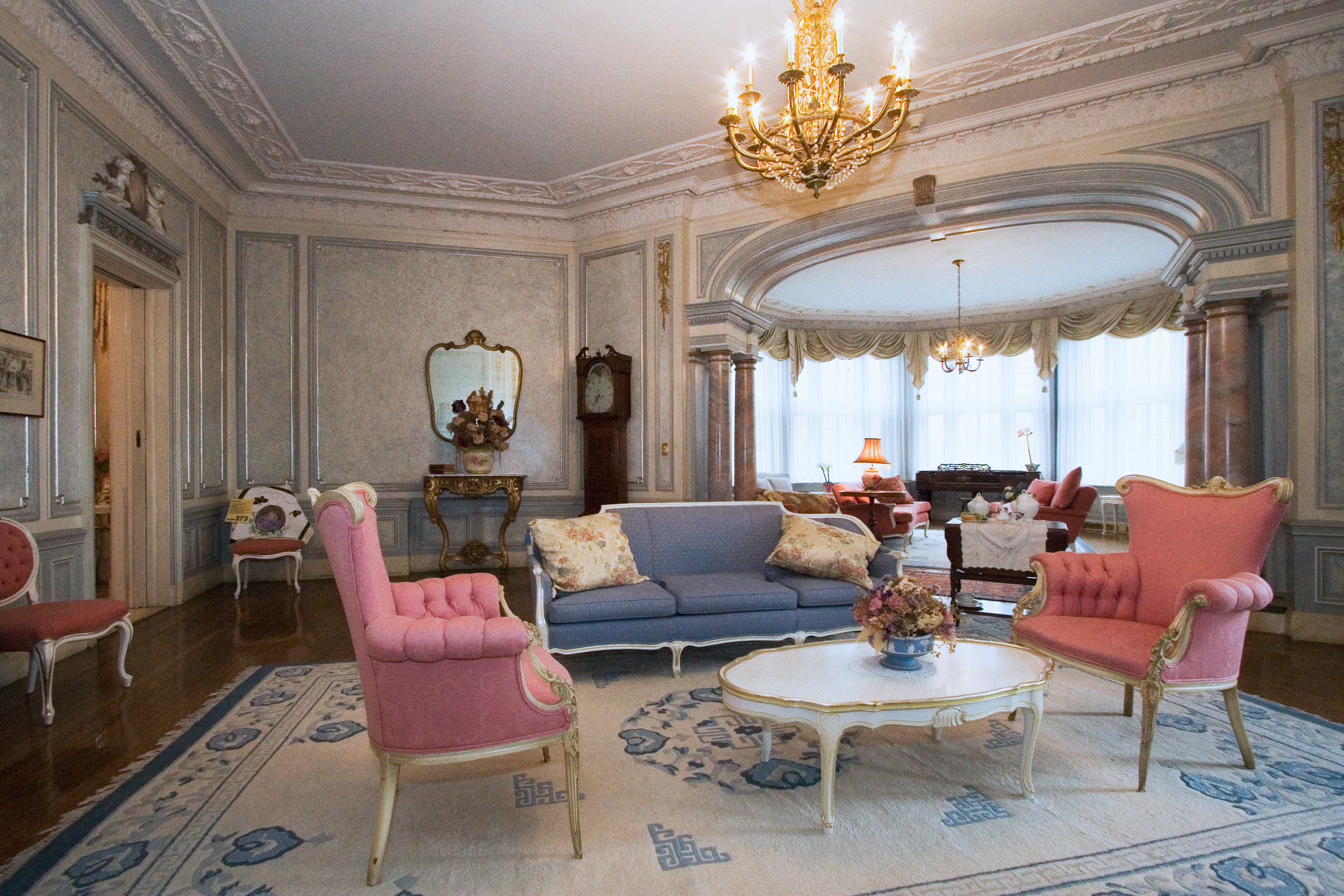 The sitting room in Lady Pellatt's Suite at Casa Loma, 1 Austin Terrace, Toronto, Ontario, Canada.